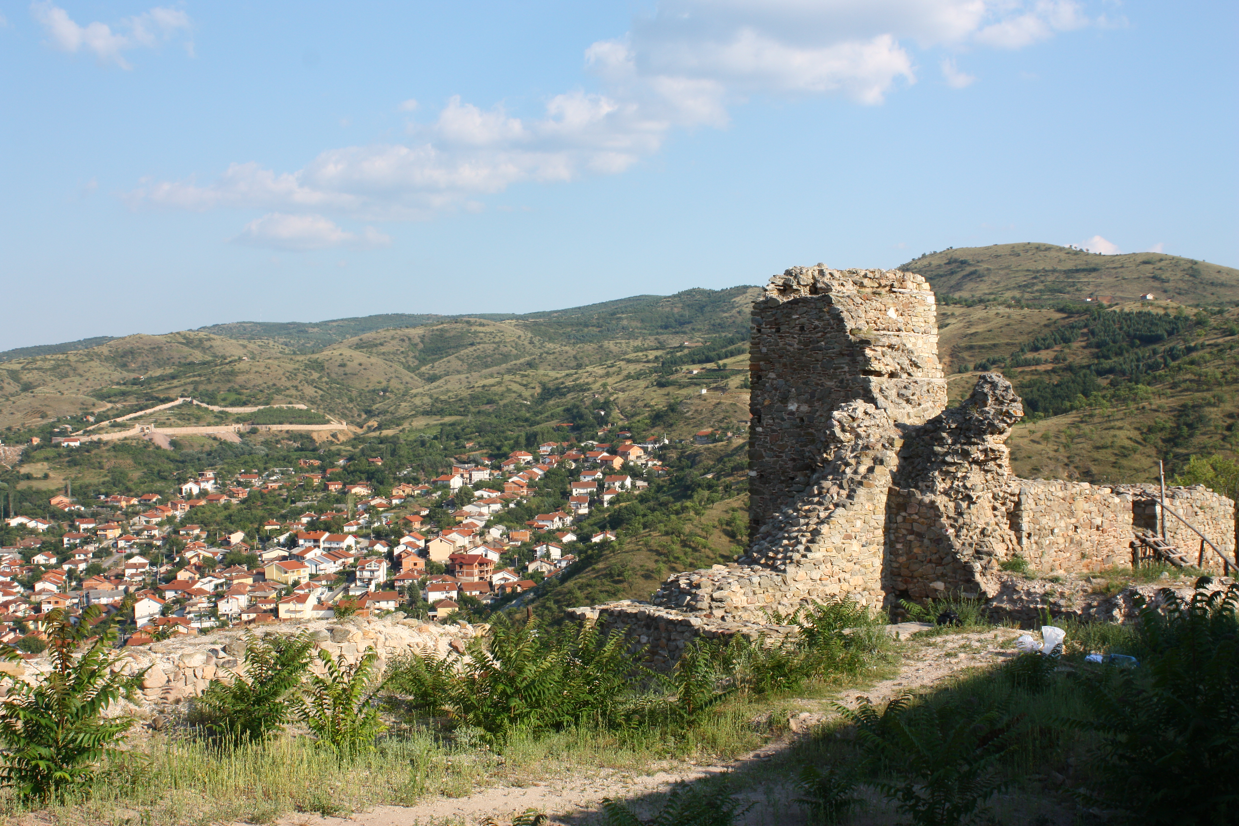 Isar Fortress in Štip, Macedonia